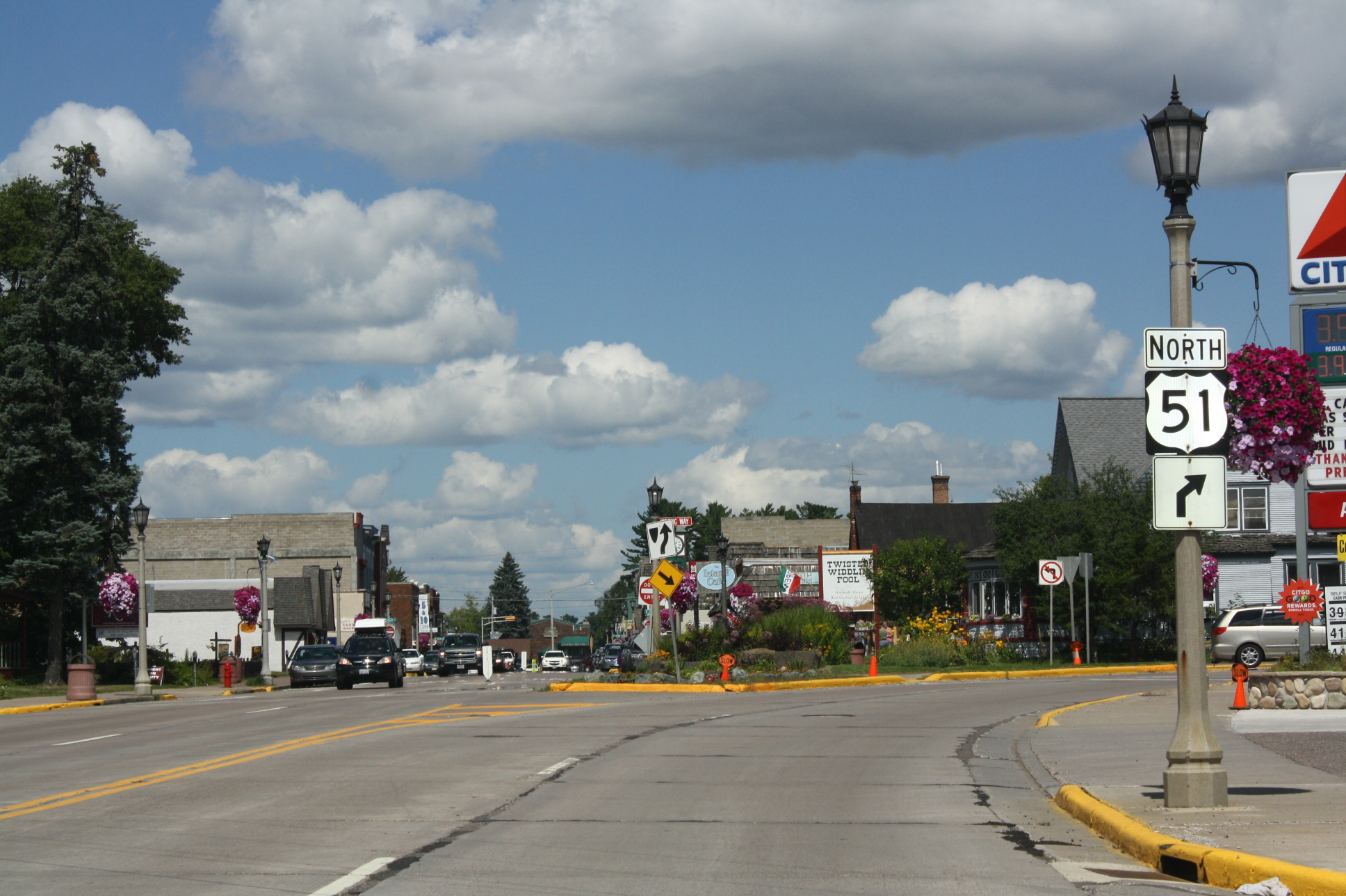 Looking northerly at downtown Minocqua (CDP), Wisconsin on U.S. Route 51.